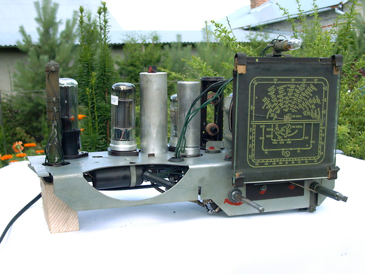 Radio "Pionier U2", manufacturer: "DIORA" (Poland), 1947-1957